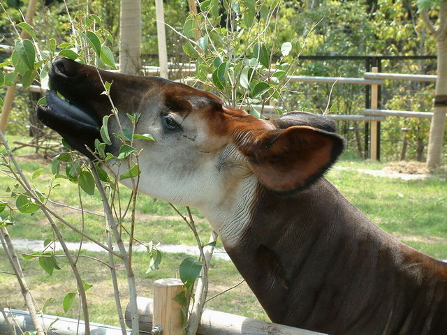 Okapi in Zoorasia.